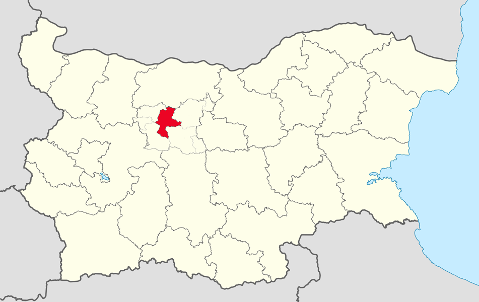 Location map of Ugarchin Municipality within Bulgaria and Lovech Province. Equirectangular projection, N/S stretching 130 %. Geographic limits of the map: N: 44.4° N S: 41.1° N W: 22.1° E E: 28.9° E